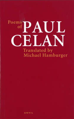 Book cover: "Poems of Paul Celan" 1990